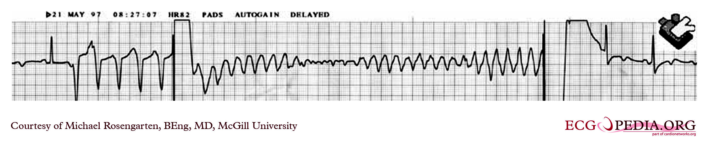 This is an EKG monitor strip recorded during the testing of a defibrillator in a middle aged woman with ventricular tachycardia and a structurally normal heart. The tracing was made during the implantation of the defibrillator and shows induction of VF with paced beats and a low energy T wave shock, termination of the VF by the device and then the return to sinus rhythm. Note the QT interval in this patient of 500 ms which is long for the heart rate of 60/min.